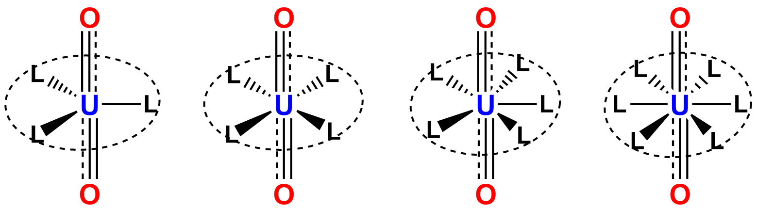 Coordination geometries of the uranyl cation (L = ligand)